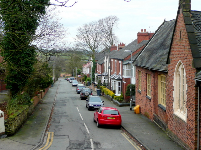 Wilbraham's Walk, Audley Looking west from the elevated position of St. James' churchyard.